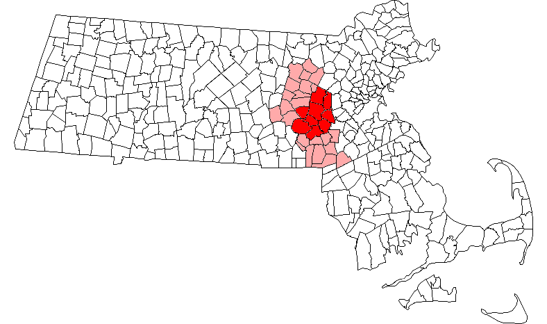 Map of Massachusetts towns with the 9 MetroWest towns (defined by the MetroWest Economic Research Center at Framingham State College) highlighted in red, and the 23 other municipalities included in the 495/MetroWest Corridor (as defined by the 495/MetroWest Corridor Partnership) highlighted in pink